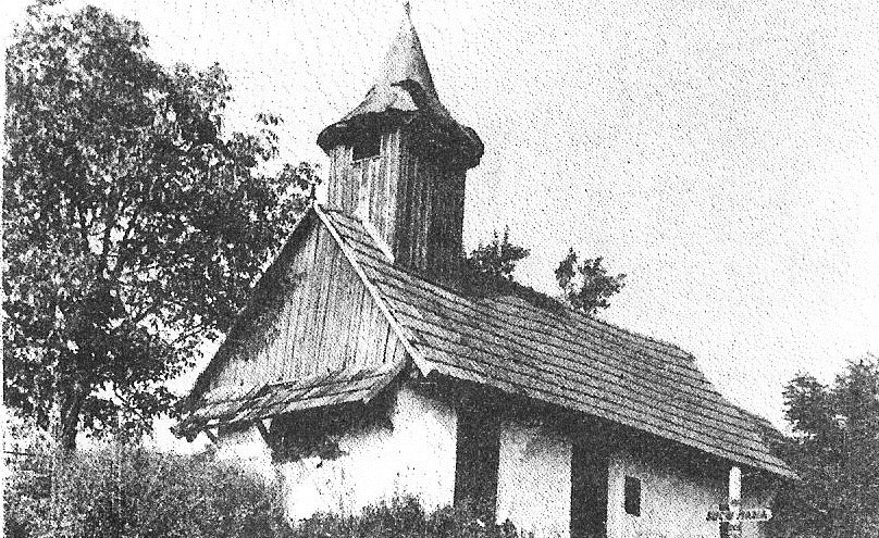 Wooden church of Călărași, Cluj (ante 1910).